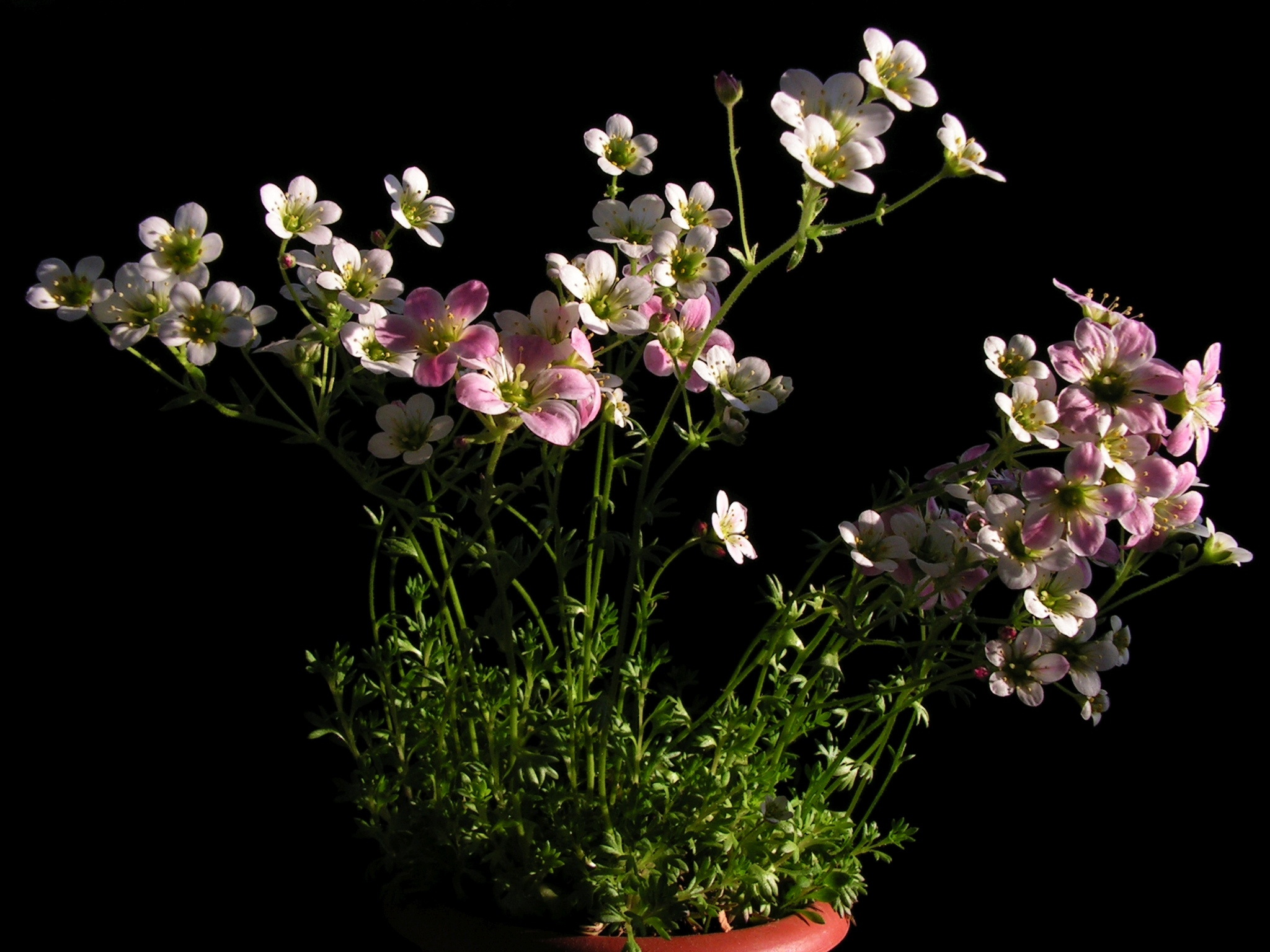 Flowering Mossy Saxifrage as a house plant. Diameter of the flowers is from 10 to 20 mm.